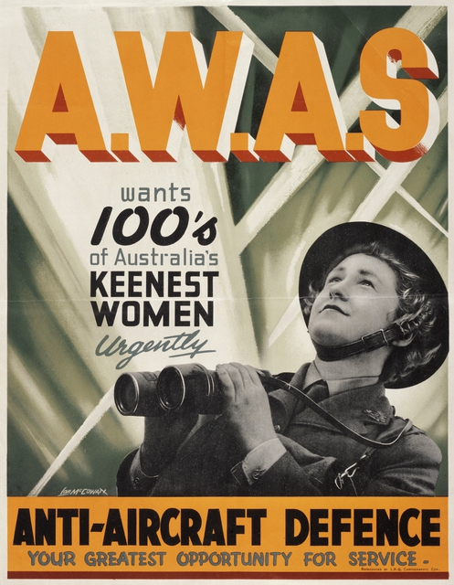 Australian War Memorial (AWM) catalog number ARTV00335 Sourced from: Copyright: The AWM record for this poster states that the copyright status is 'clear'. The poster was taken prior in 1945. Higher resolution images may be ordered through the AWM (Source: email from the AWM to Nick Dowling 6 January 2006). AWM Caption: AWAS wants 100's... Maker: (/Artist/Publisher ) LHQ Lithographic Coy, Australian Survey Corps/McCowan, Ian/Unknown The copyright has expired on this image. Higher resolution versions of this image may be ordered through the AWM Website at